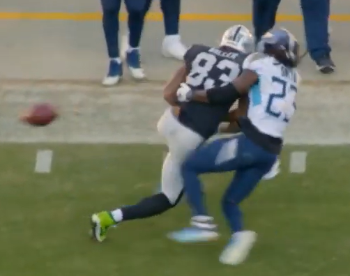 Darren Waller 2019. Image from video Analyzing Three Big Touchdowns at Oakland | Beneath the Surface, ~ 02:52